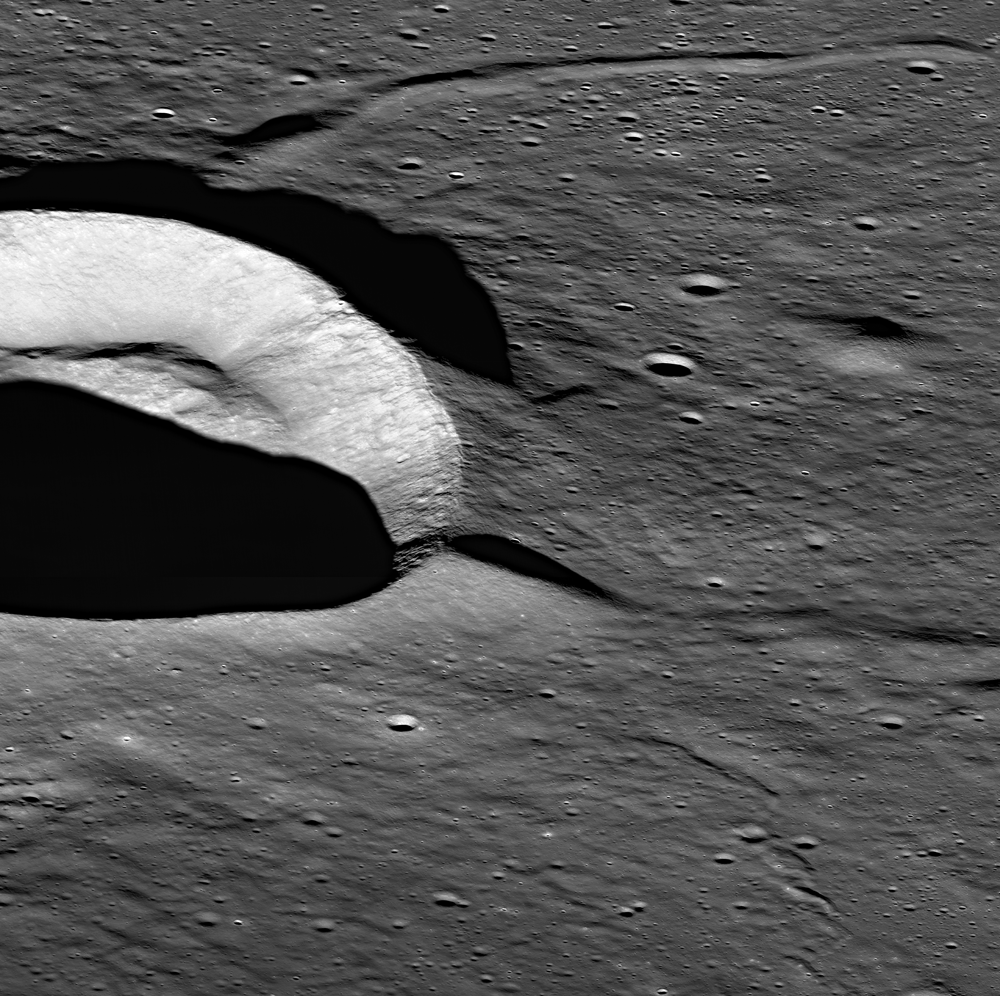 An oblique view from LROC's NAC of Lichtenberg crater (31.854°N, 292.284°E). This image is approximately 22 km wide. North is to the bottom right of the image [NASA/GSFC/Arizona State University].